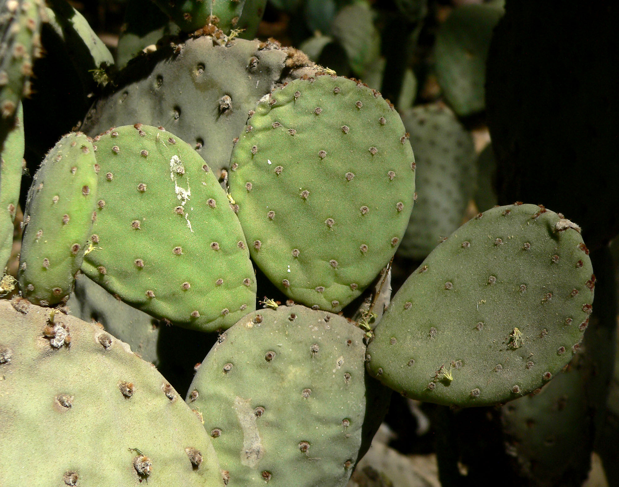 Opuntia rufida at the Ethel M Botanical Cactus Garden, Las Vegas, Nevada